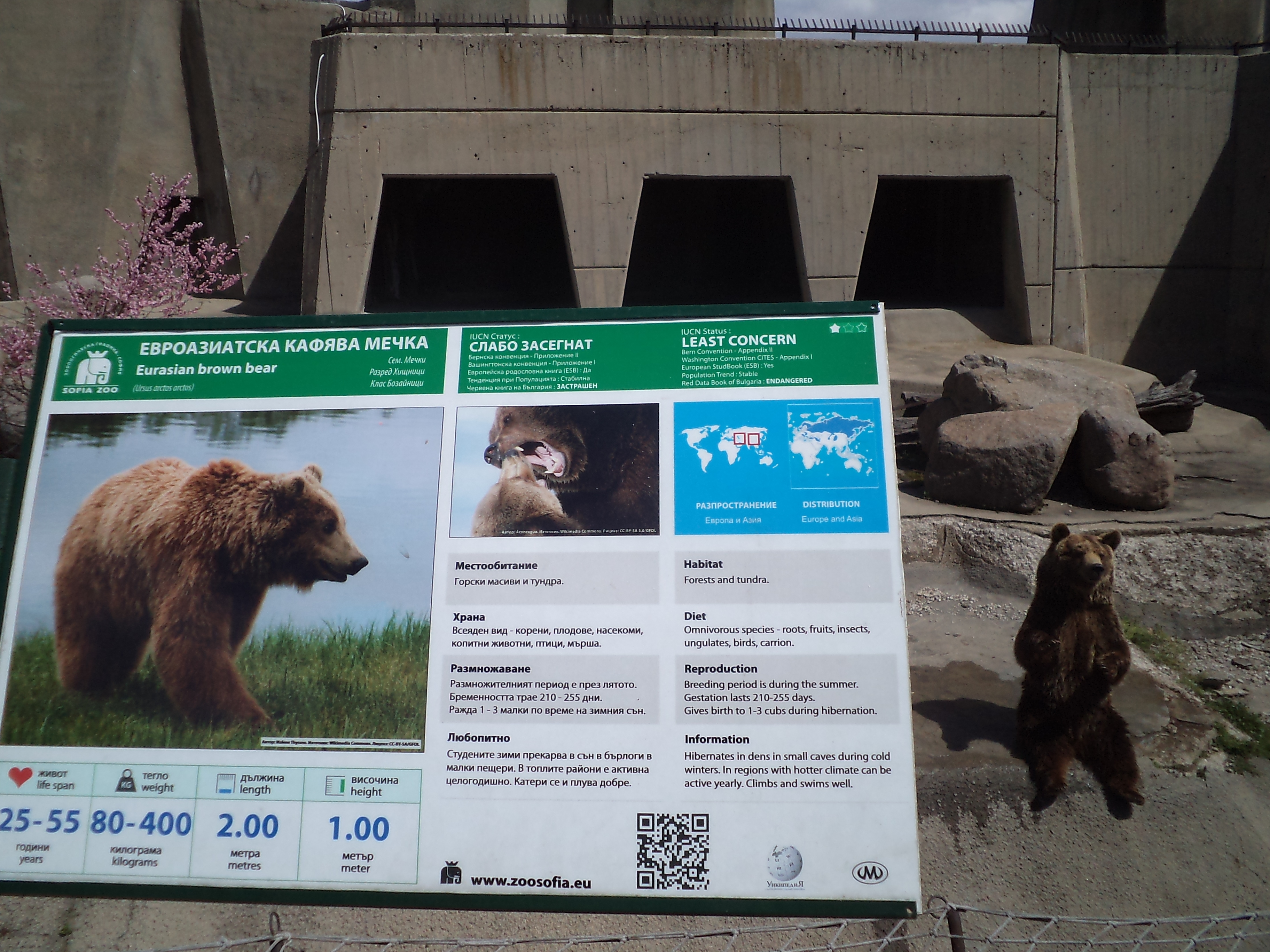 Mounted Wikimedia funded infoboard for Ursus arctos arctos (eurasian brown bear)